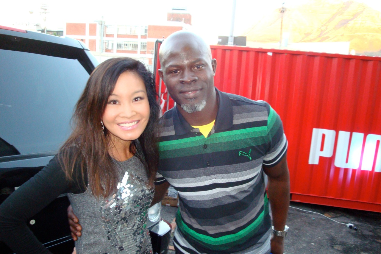 International celebrity Djimon Hounsou (Blood Diamond) was in Cape Town, South Africa for the Puma Legends of Unity Exhibition, where he has been working on a charity initiative to promote African footballers. Djimon Hounsou is pictured with 5 FM Hollywood Reporter Jen Su.